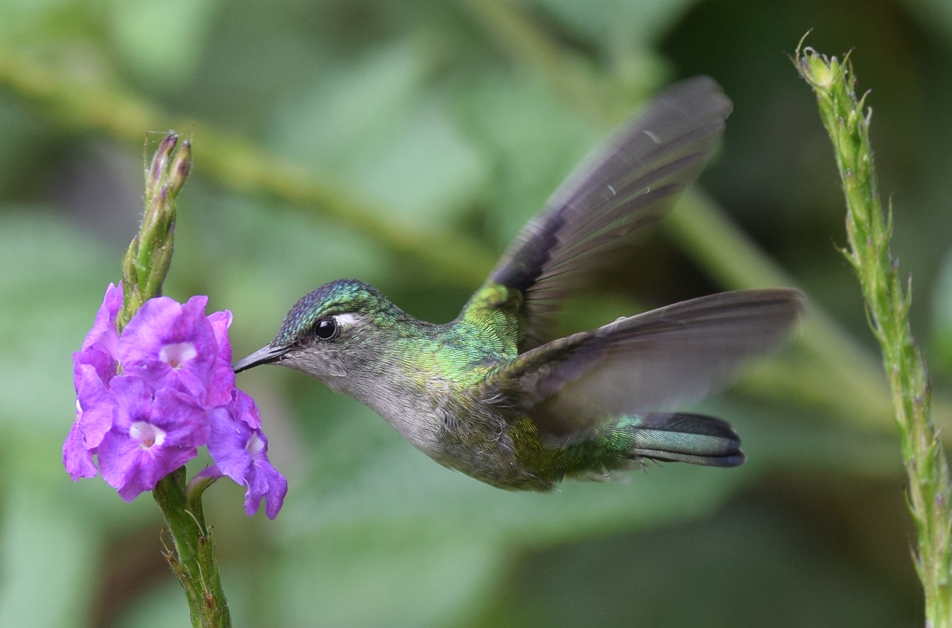 Costa Rica 2/14/16 Rancho Naturalista